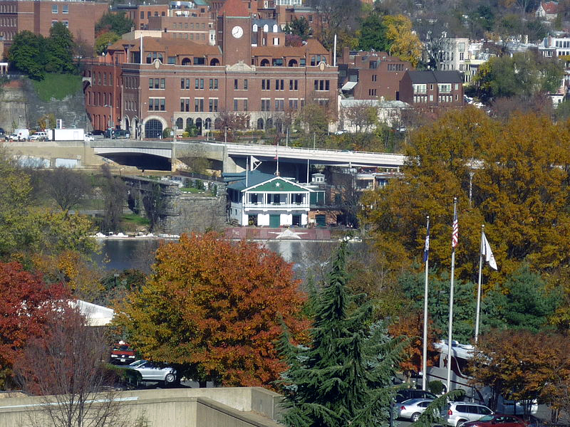 Potomac Boat Club near Potomac Aqueduct Bridge abutment at Georgetown waterfront, Washington, District of Columbia.